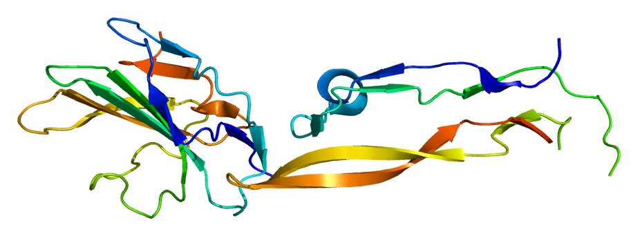 Structure of the TGFB3 protein. Based on PyMOL rendering of PDB 1ktz.